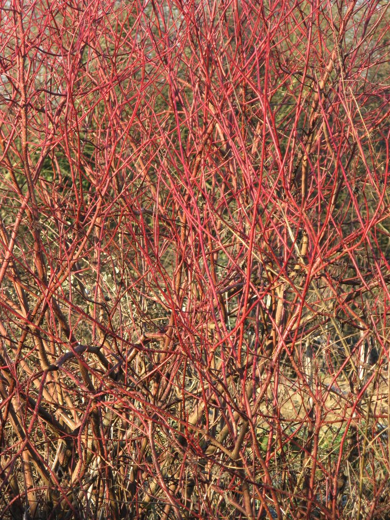 Cornus sanguinea in winter, Avesnois, France